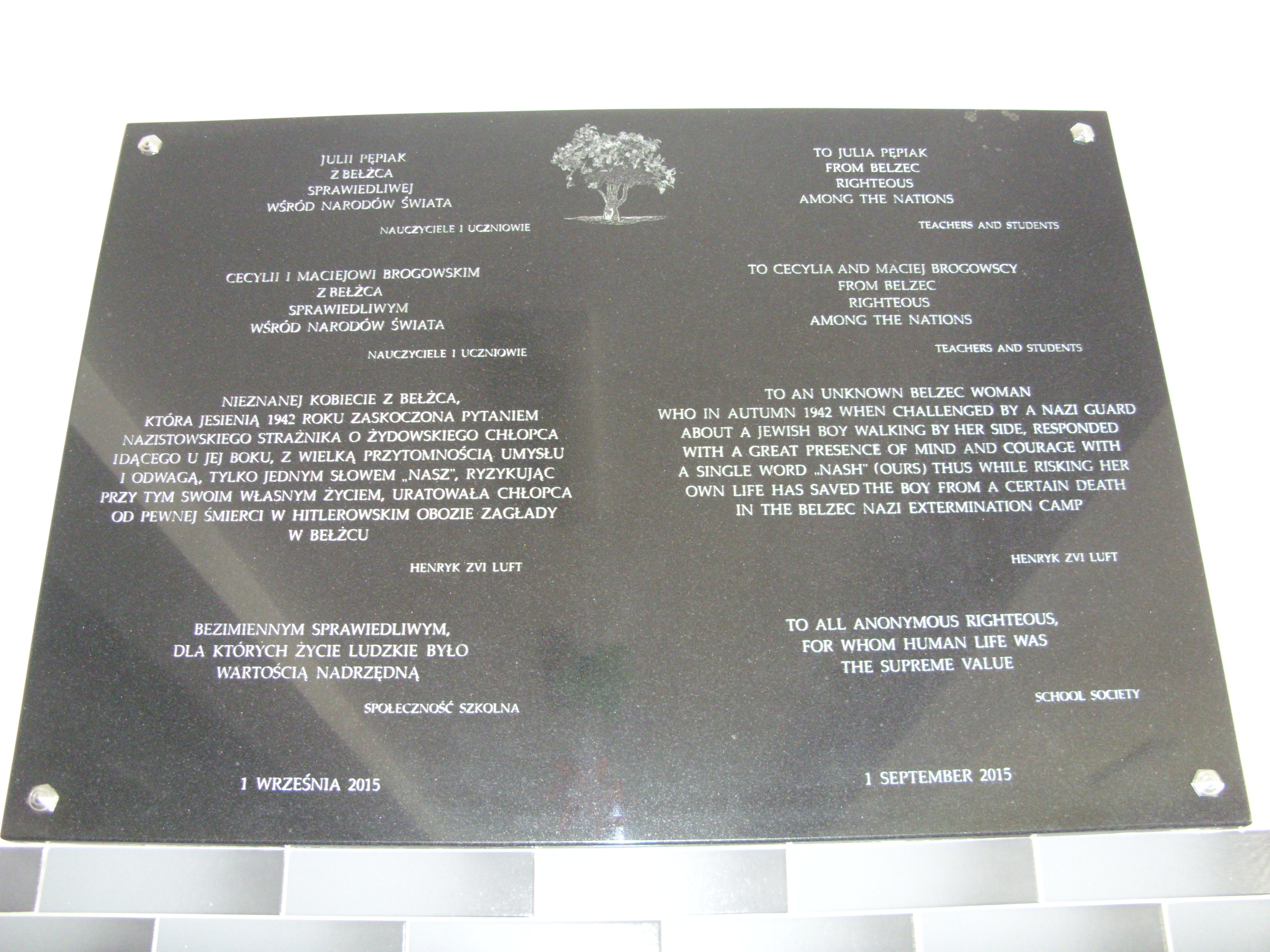 Belzec. The Righteous Among the Nations from Bełżec, Poland. The memorial board is in the school in Bełżec, Lublin Voivodeship, Poland. Righteous Among the Nations of Bełżec, Poland: 1. Julia Pępiak, who saved Salomea Helman with her daughter Bronia. During the German occupation of Poland in 1939-1945 and the Holocaust. Julia Pępiak received the Righteous Among the Nations title given by Yad Vashem in Jerusalem. 2. Cecylia and Maciej Brogowscy - from 1941 until the liberation of Bełżec, part of Poland from the German occupation in 1944, they hid from the German Gestapo and SS, a Jewish girl, Irena Sznycer. The child was brought at the request of parents from Warsaw by Ksawera Brogowska and Maria Leszczyńska. After the war, Irena Sznycer went to Israel. Brogowski's marriage was posthumously awarded the title of Righteous Among the Nations by Yad Vashem in Jerusalem in 2008 to the hand of their daughter Maria. 3. An unknown (anonymous) woman from Bełżec who risked her life in autumn 1942 saved her from a German SS soldier, a Jewish boy, Henryk Zvi Luft, saying that the boy is her family.